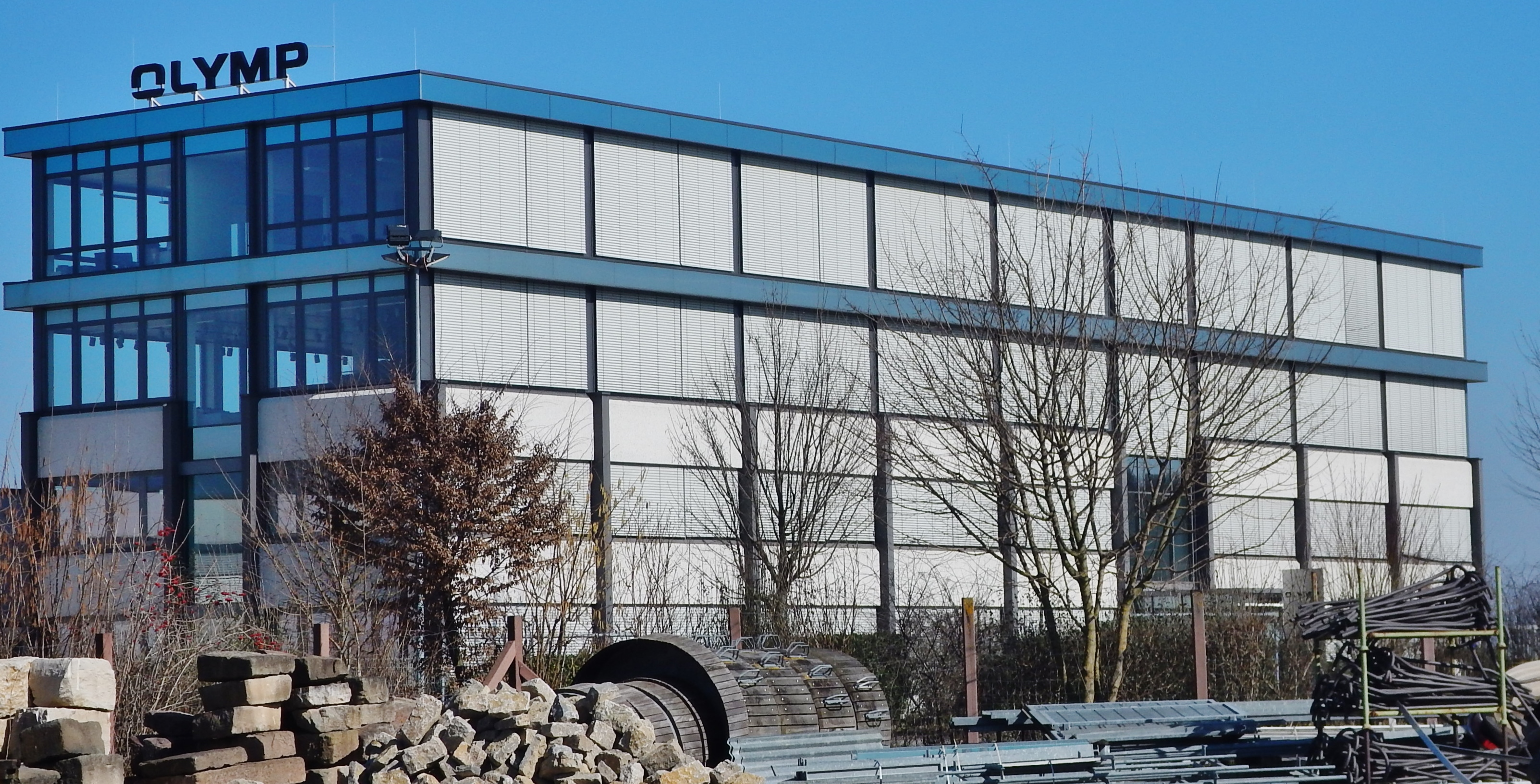 Olymp